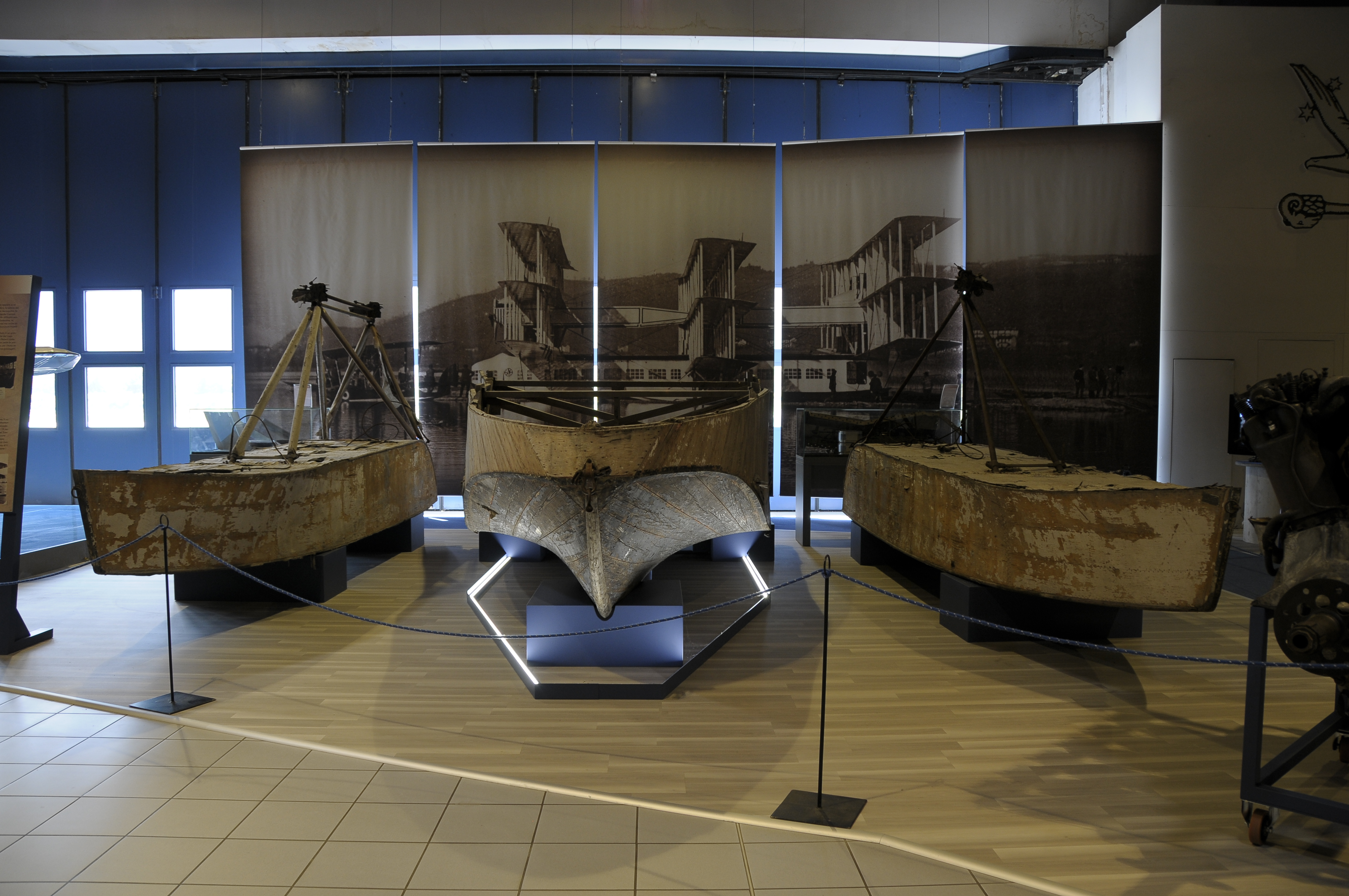 Some of the few surviving parts of the Caproni Ca.60 Transaereo (the two side floats, the front section of the main hull, one Liberty L-12 engine) in the main hall of the Gianni Caproni Museum of Aeronautics in Trento, Italy.